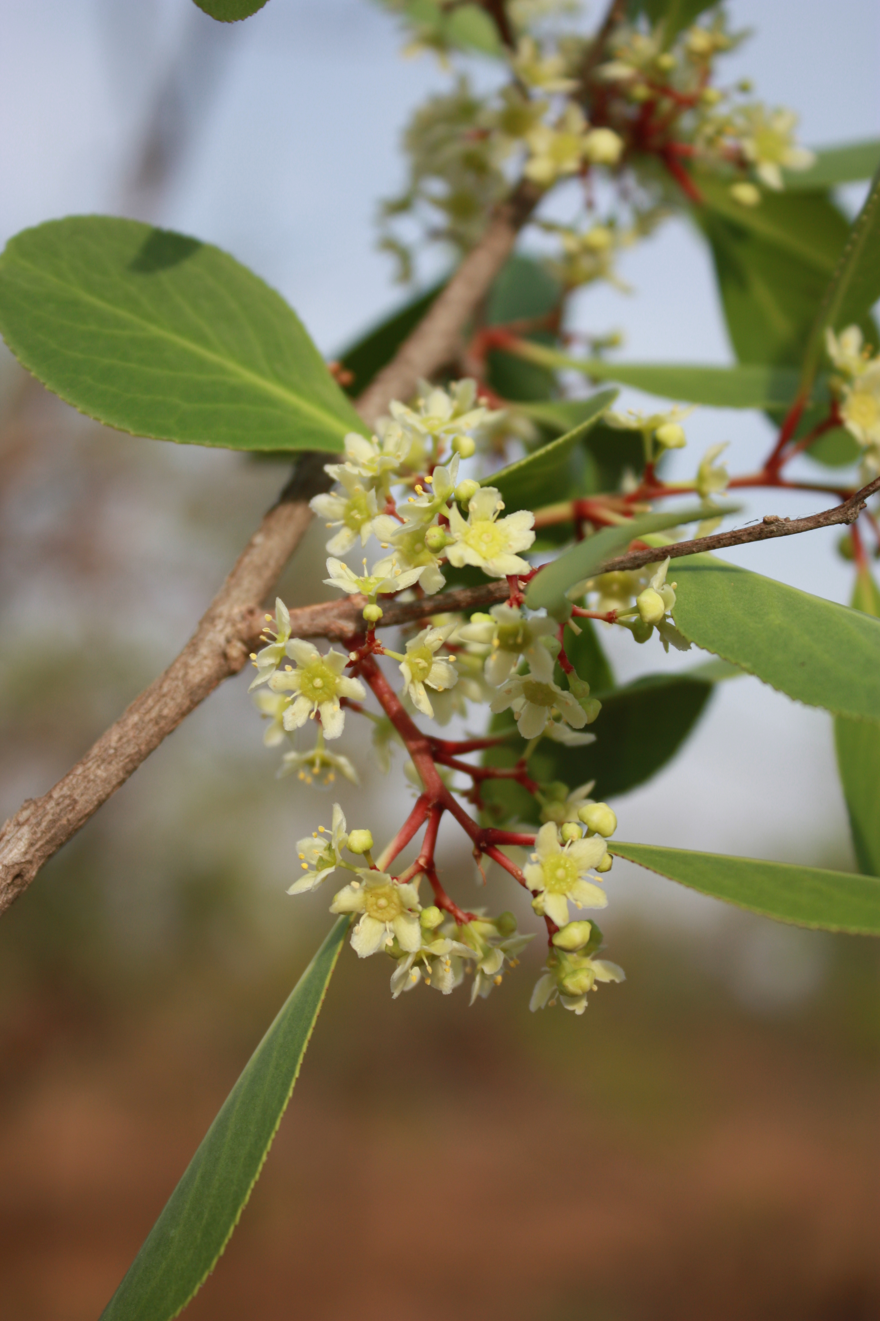 Flowers of Maytenus senegalensis, near Folonzo, SW Burkina Faso